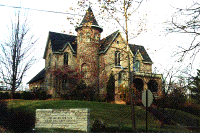 Delawarecastle